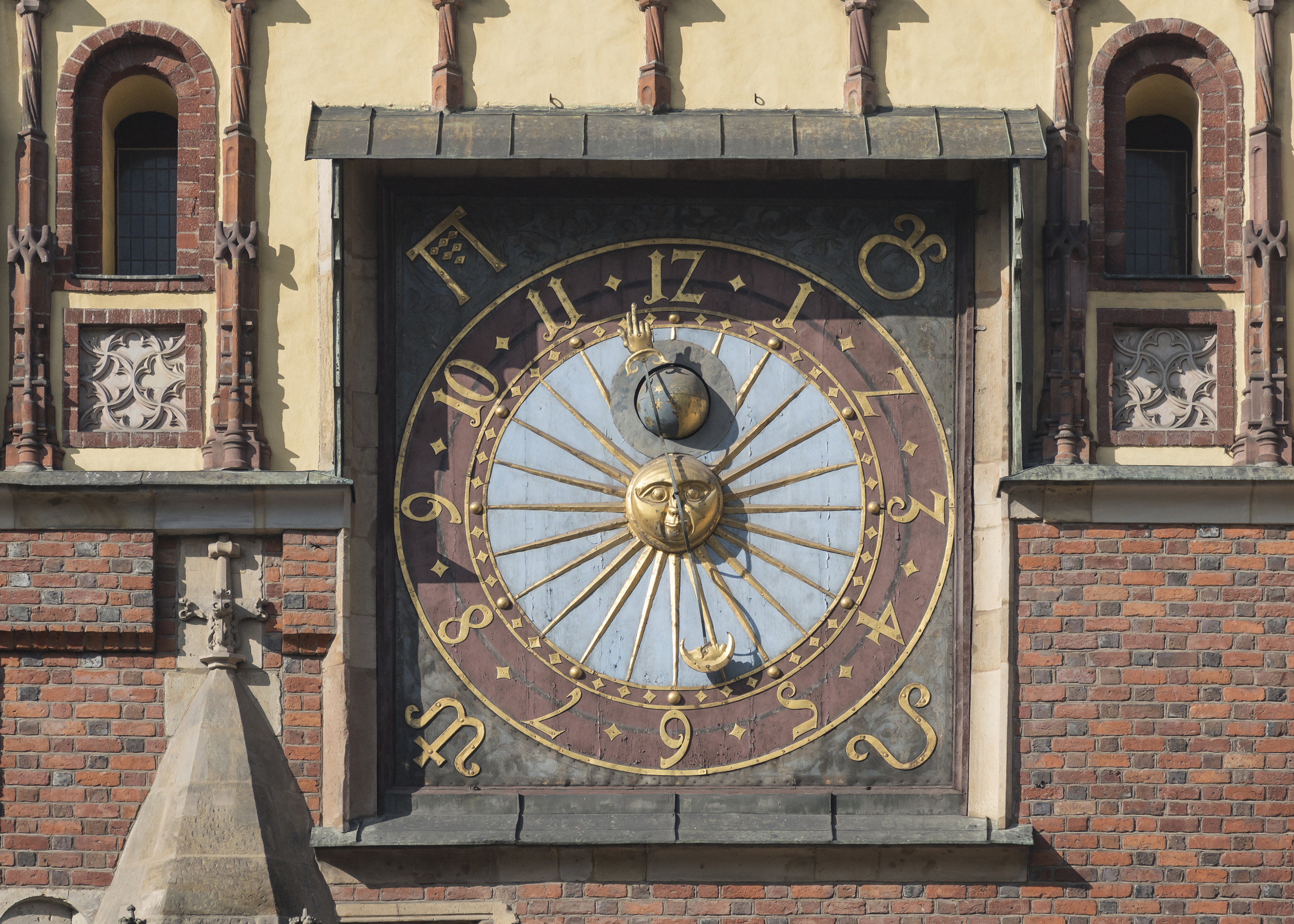 Astronomical clock, Town Hall in Wrocław Ta fotografia przedstawia zabytek wpisany do rejestru zabytków pod numerem ID 598731